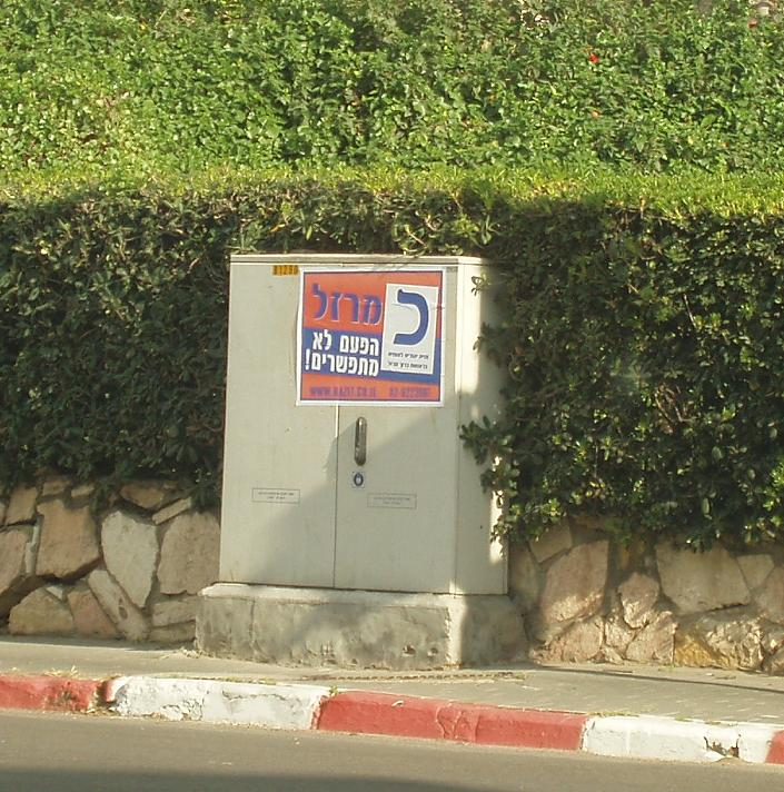 Election poster for Chayil Party (Jewish National Front) on telecommunications box, Israel 2006.